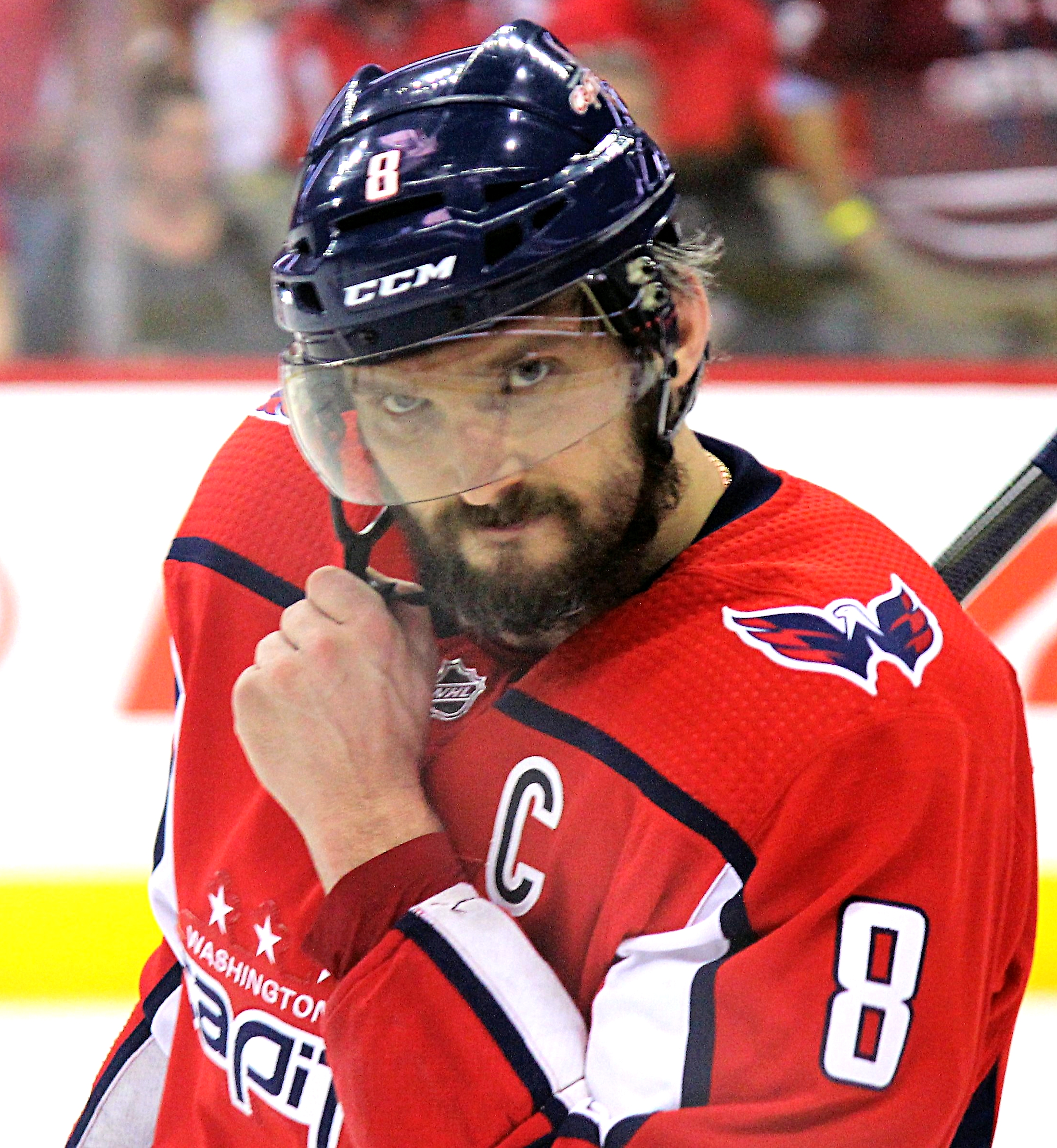 Washington Capitals captain Alex Ovechkin during game 6 of the Eastern Conference Finals against the Tampa Bay Lightning, May 21, 2018, at Capital One Arena in Washington, D.C.